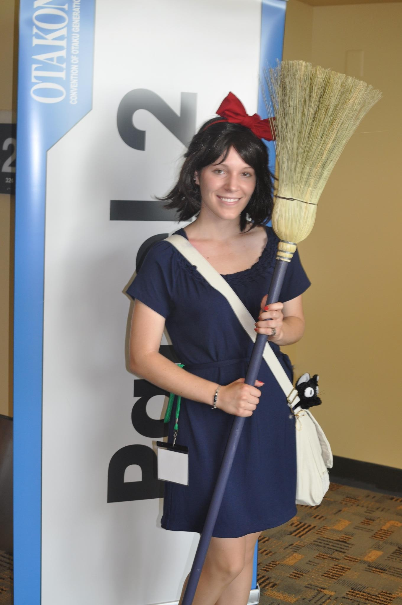 Kiki cosplayer at Otakon 2011